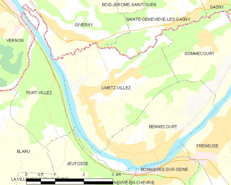 Map of French municipality Limetz-Villez